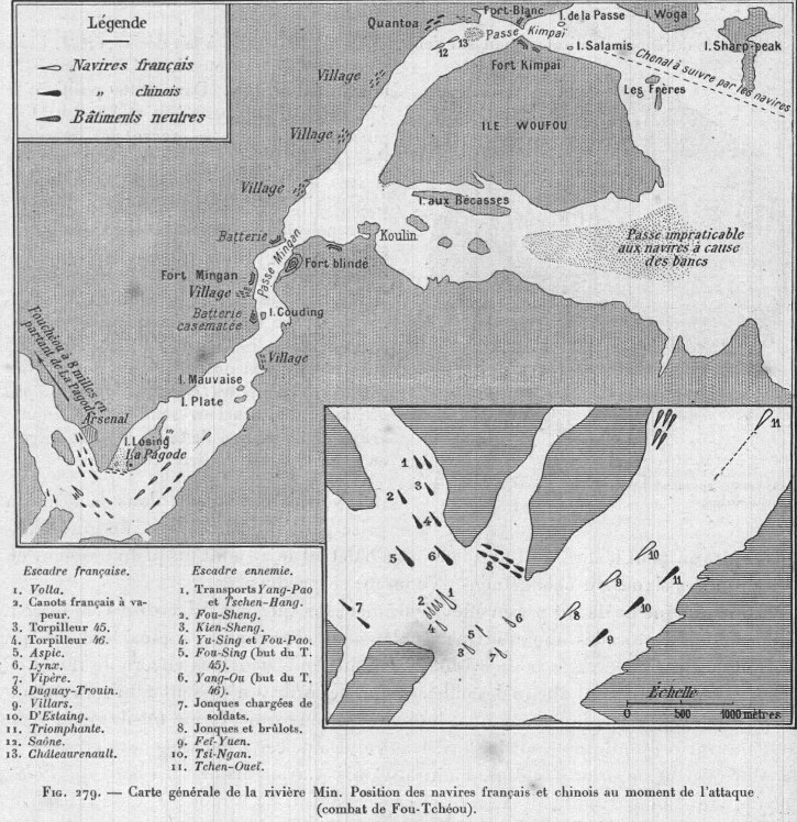 Two maps of the Min River showing the access to the Foochow Arsenal and the positioning of the French and Chinese ships at the time of the battle in front of the Chinese arsenal. 1884. Franco-Chinese War